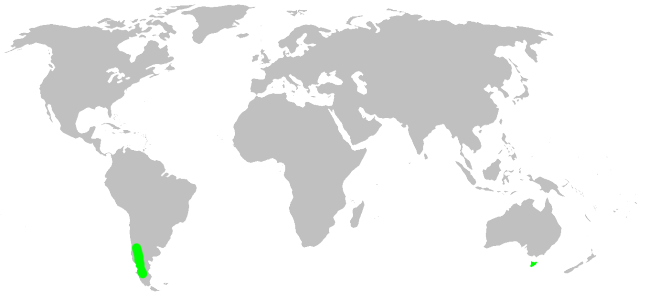 Austrochilidae habitat distribution, drawn after Platnick: World Spider Catalog 7.0. This is not a precise rendering of the distribution! If you have better information, please replace this map, or send me the info, and i will redraw it.